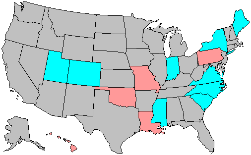 Summary of party change of U.S. house seats in the 1986 House election. Stripes indicate a tie between the gains of two or more parties. Legend: 6+ Democratic seat pickup 3-5 Democratic seat pickup 1-2 Democratic seat pickup 1-2 Republican seat pickup 3-5 Republican seat pickup 6+ Republican seat pickup Note: years ending in 2 may have inconsistent results due to redistricting.